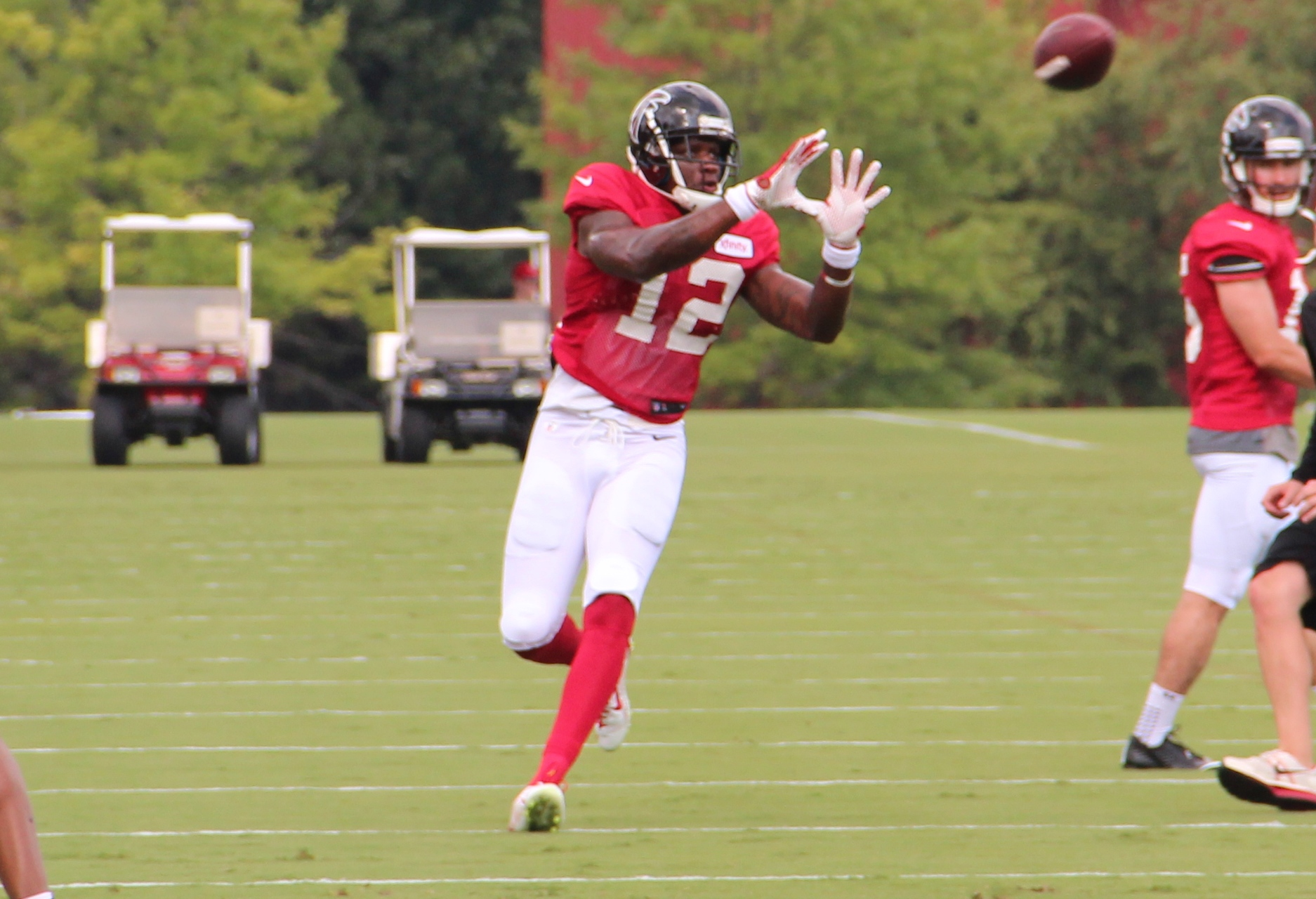 Mohamed Sanu at Atlanta Falcons training camp, 2016